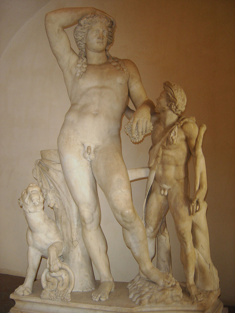 Drunken Dionysos and satyr. Marble, Roman copy from the 2nd century CE after an Hellenistic original. Marble; original elements: heads, torsos and thighs of Dionysos and satyr, right arm of Dionysos; restored elements: legs of Dionysos and satyr, arms of the satyr. From the excavations for the construction of Palazzo Mattei a Quattro Fontane.